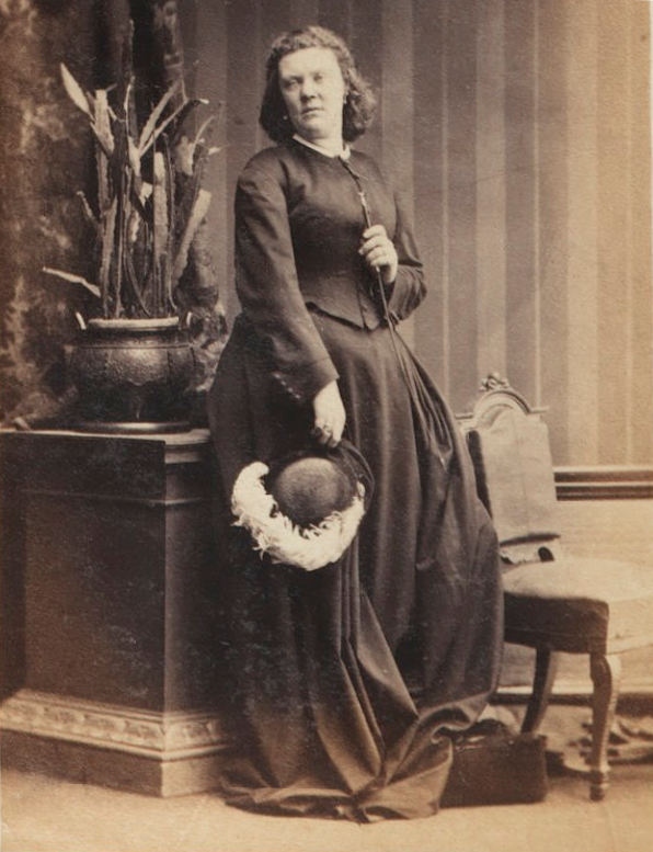 Edith Maud Abney Hastings 10th Countess by Camille Silvy who died in 1910 - 30 April 1861